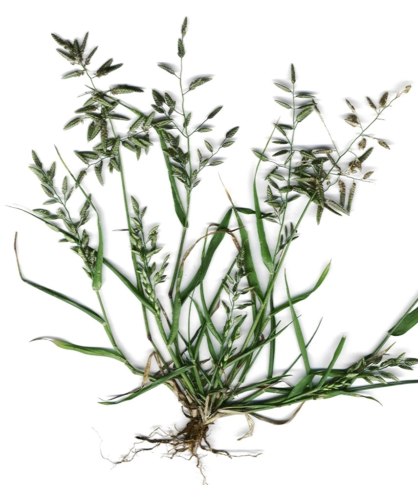 Eragrostis cilianensis (plant). Location: Maui, Puu o Kali